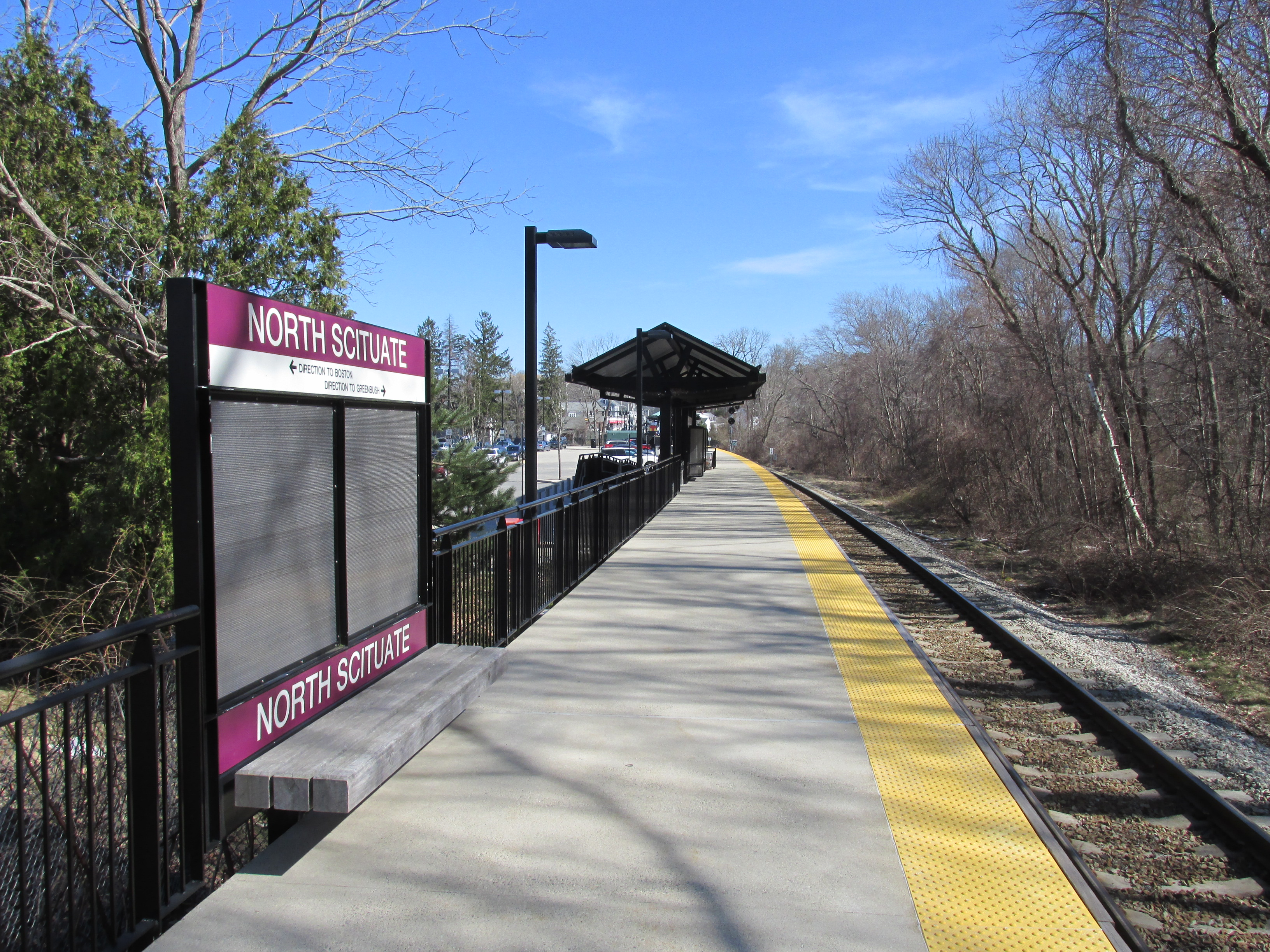 North Scituate MBTA station, North Scituate Massachusetts